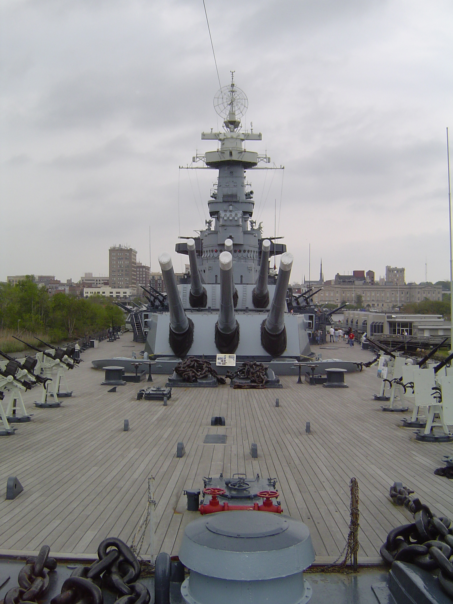 Deck of the World War Two battleship USS North Carolina BB-55-2.